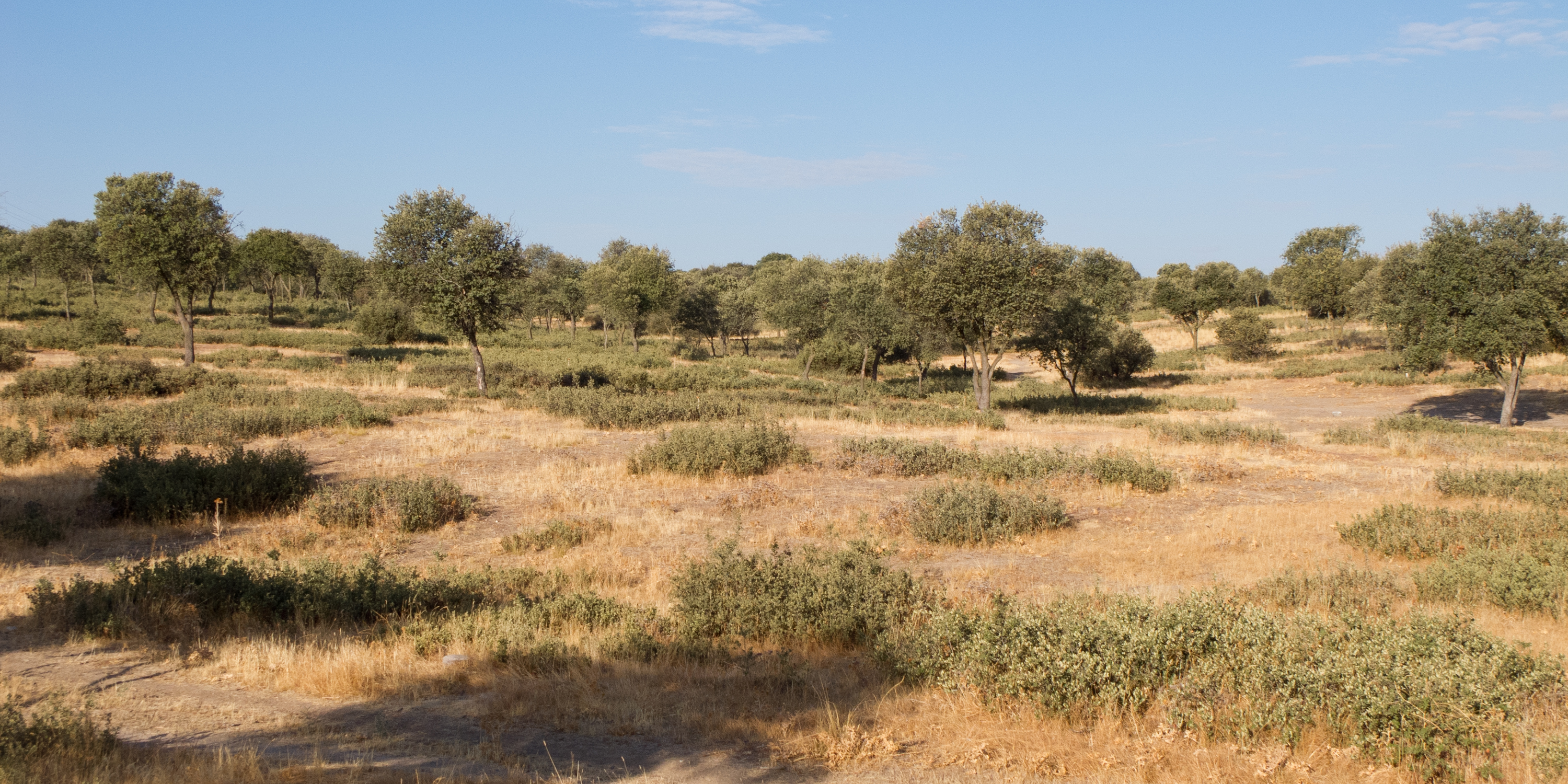 Dehesa Boyal, San Sebastián de los Reyes, Community of Madrid, Spain.